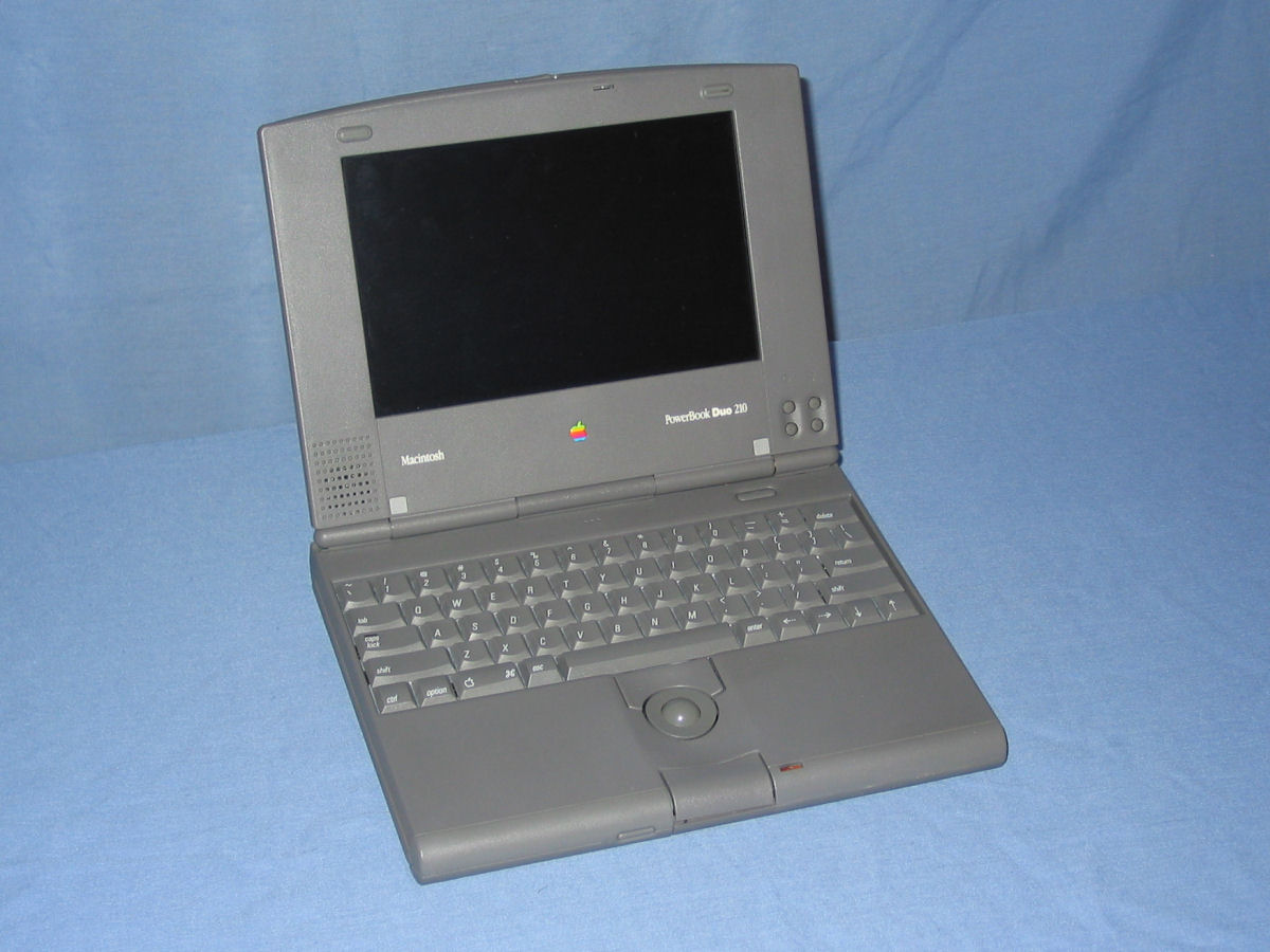 Front view of a PowerBook Duo 210 portable computer